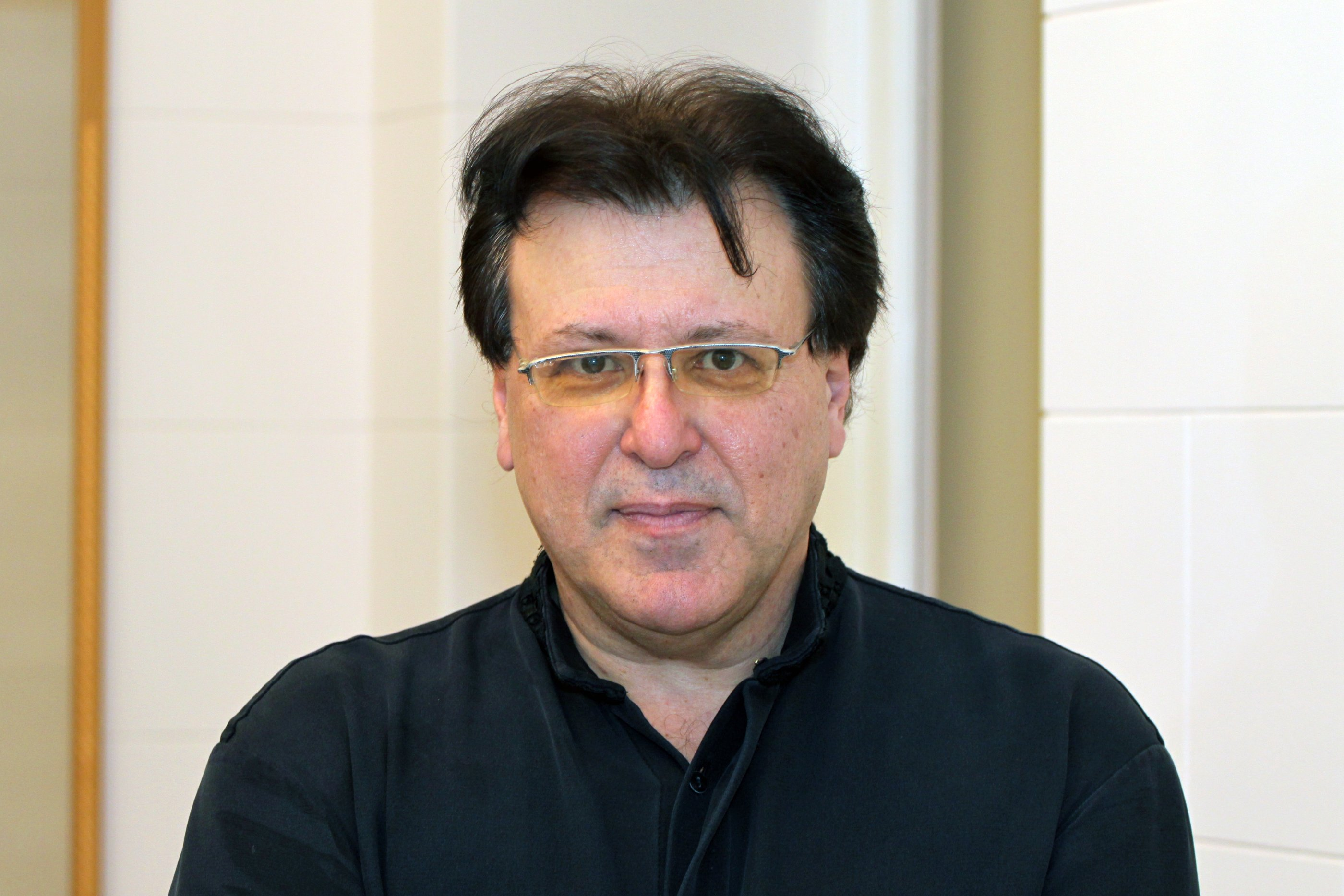 Andrei Gavrilov, Russian pianist.